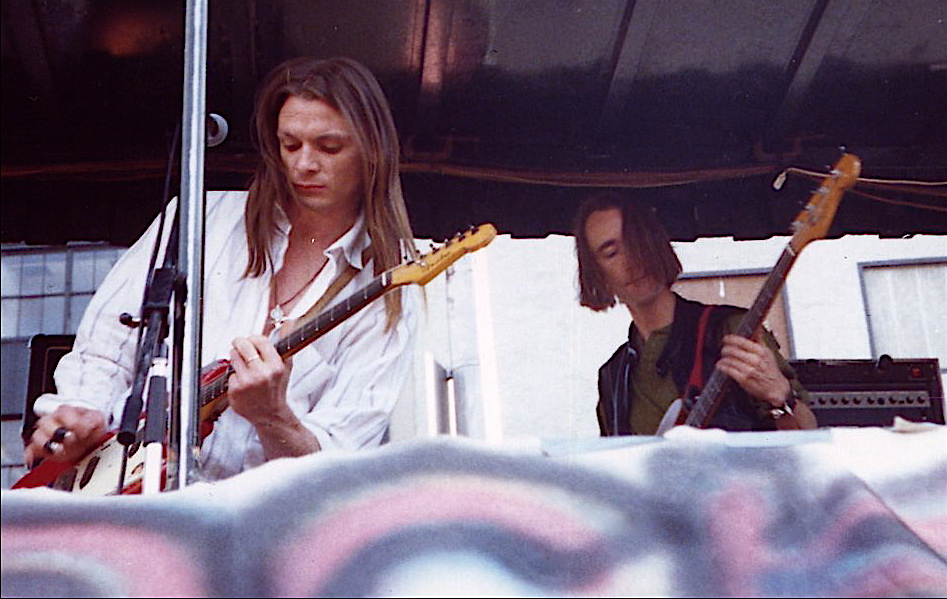 Chris Whitley and Alan Geveart of Deus this shot was taken on 14th street NYC at a benefit back in the late 1990's. R.I.P Chris